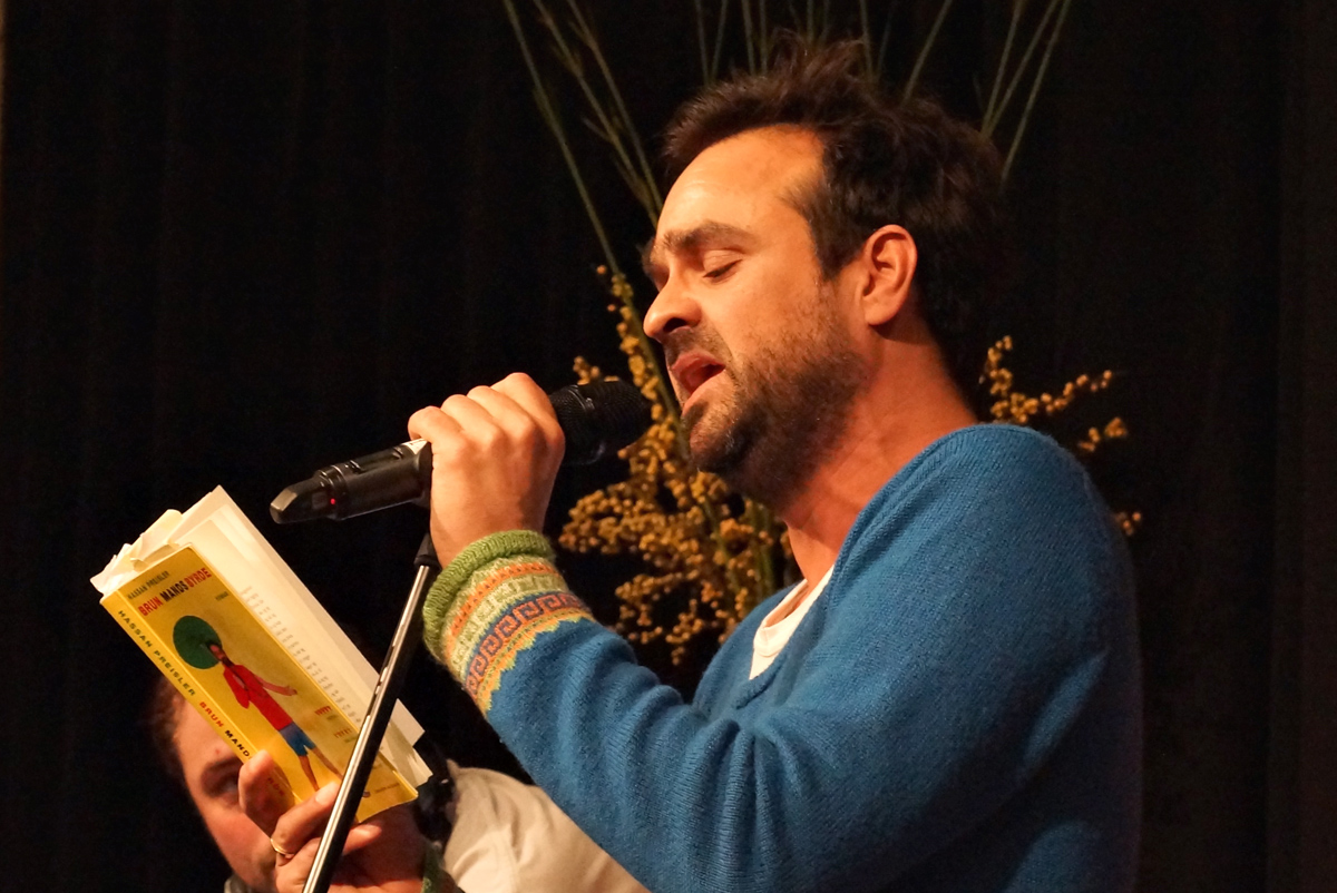 Hassan Preisler - Danish actor and writer at the Copenhagen Book Fair "BogForum 2013", Copenhagen, Denmark